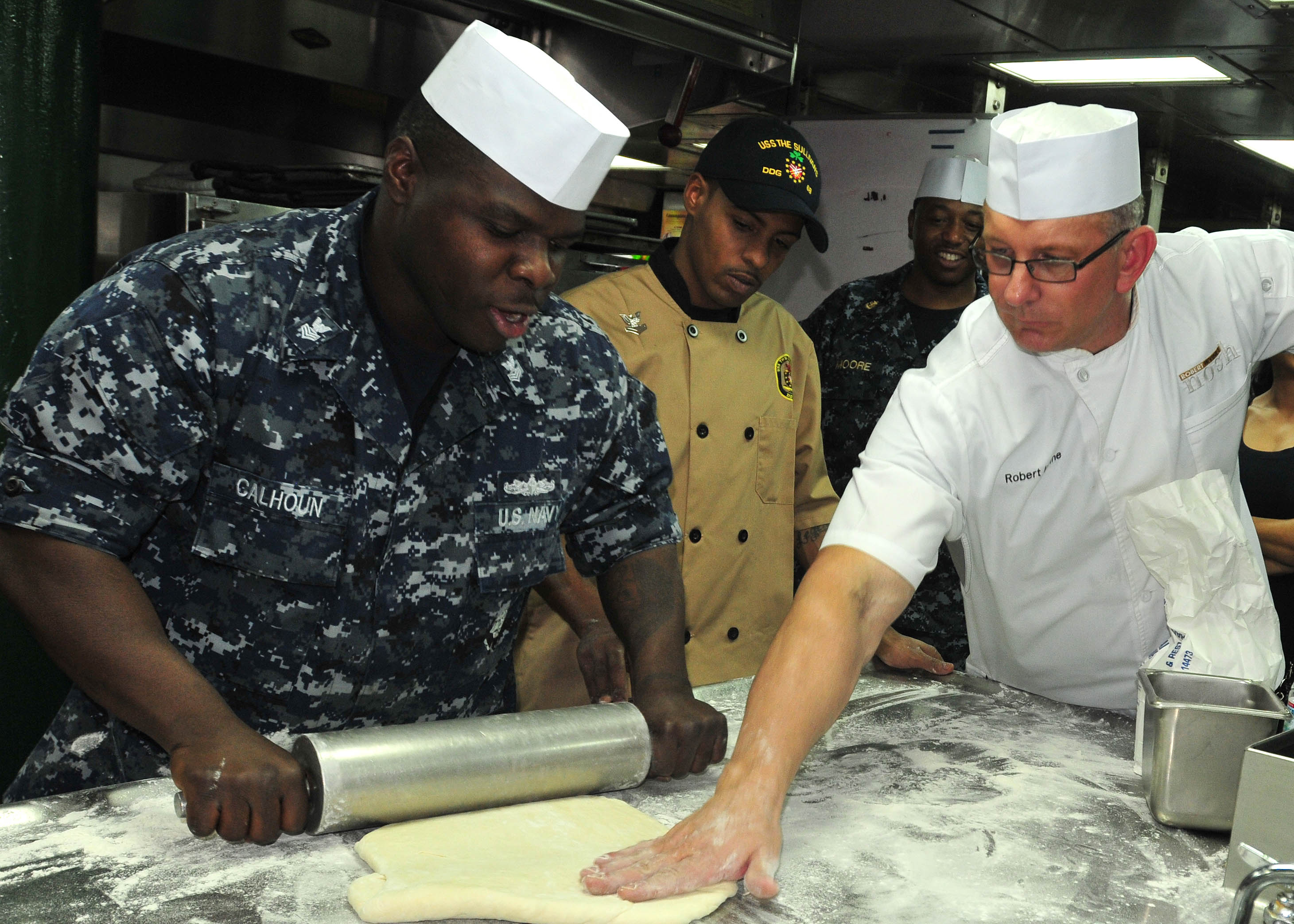 MAYPORT, Fla. (Oct. 23, 2012) Food Network Chef Robert Irvine shares pizza dough rolling tips with Culinary Specialist 1st class Romonn Calhoun aboard the guided-missile destroyer USS The Sullivans (DDG 68). Irvine visited several ships stationed at Naval Station Mayport. The U.S. Navy has a 237-year heritage of defending freedom and projecting and protecting U.S. interests around the globe. Join the conversation on social media using #warfighting. (U.S. Navy photo by Mass Communication Specialist 1st Class John Parker/Released) 121023-N-BB308-167